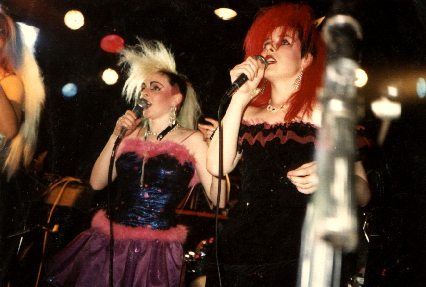 These were either taken on July 2nd or Dec 14th at the Underground in Croydon, UK